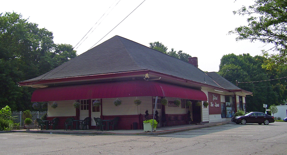 Photographed by Daniel Case 2006-07-10